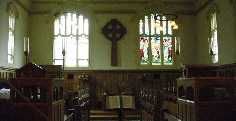 The Ross Chapel of Knox College in early 2009.